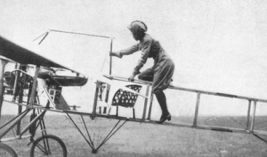 Harriet Quimby mounting her Moisant monoplane.